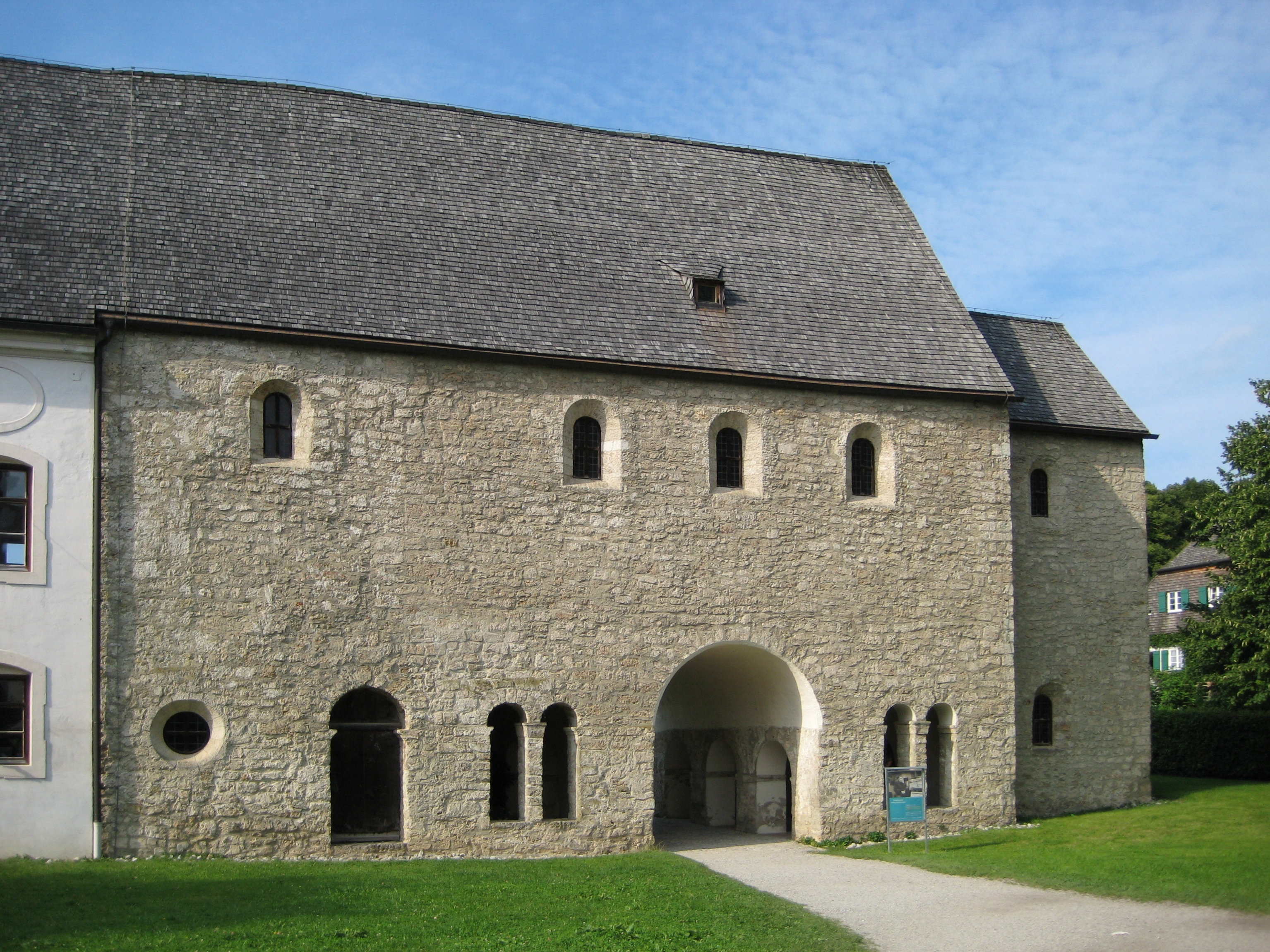 Chiemsee, Fraueninsel, South side of the Carolingian gatehouse, Frauenchiemsee Abbey